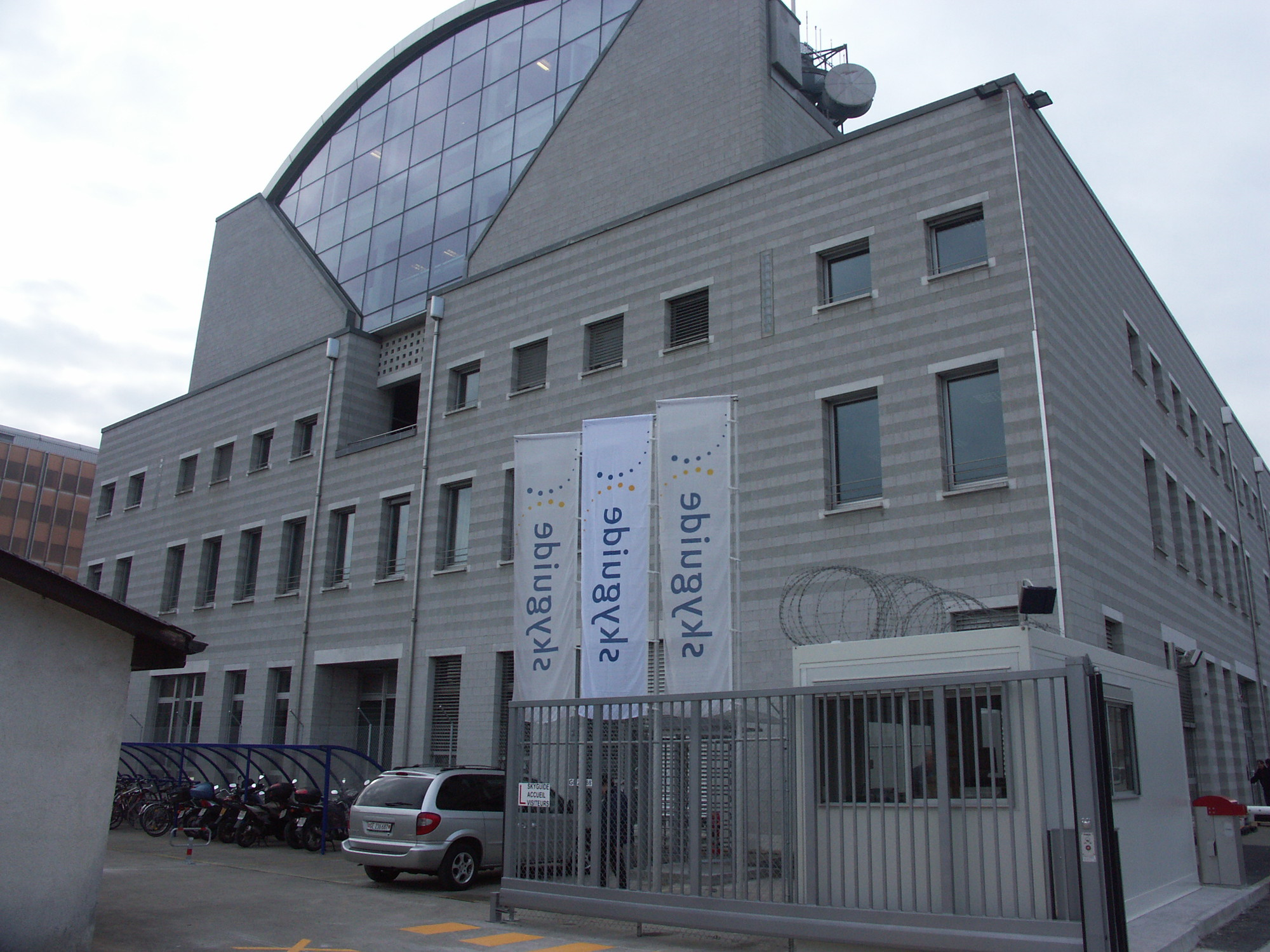 Skyguide GVA HQ